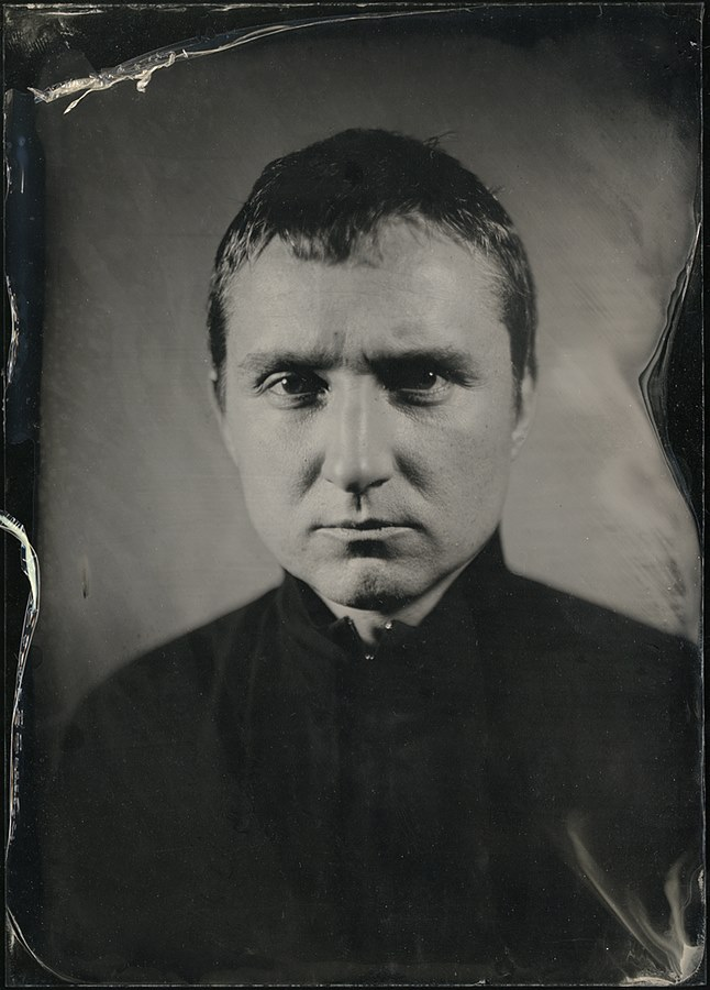 Portrait of Vahur Puik. Photographer Tarmo Virves. A contemporary wet plate collodion photograph on glass.